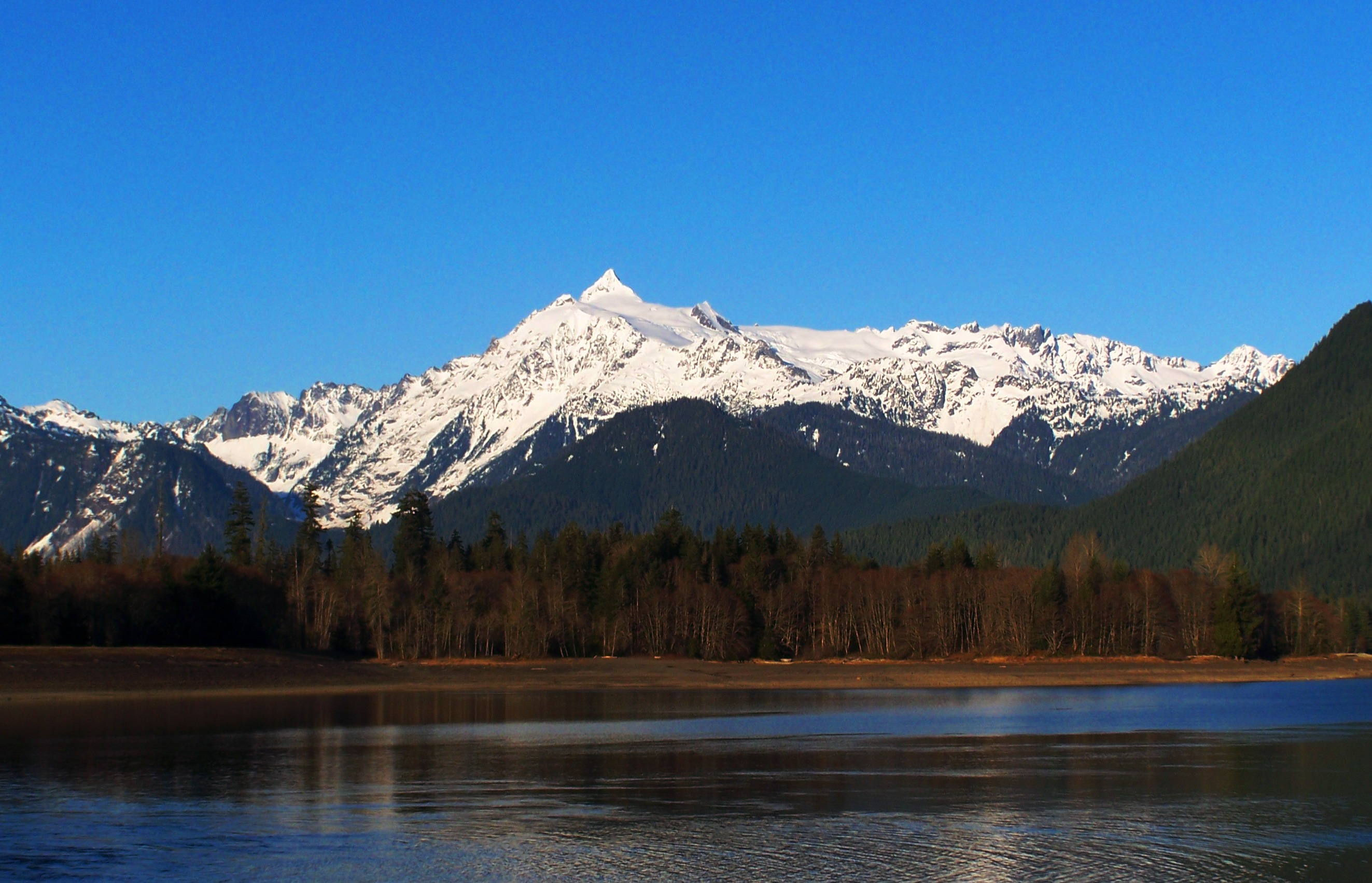 Mount Shuksan as seen from Baker Lake, south of the mountain